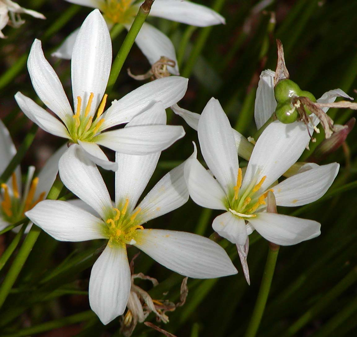 Photo of Zephyranthes candida (white rain lily) at the Desert Demonstration Garden in Las Vegas